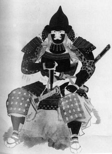 picture of Tada_Mitsuyori